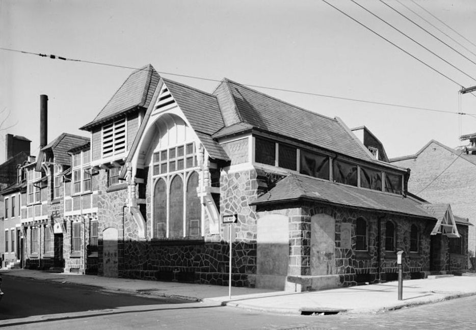 Church of the Redeemer (for Seamen and their Families and Charles Brewer School), 101-07 Queen Street, Philadelphia, Pennsylvania (1878), Frank Furness, architect. Destroyed by arson, October 1974.